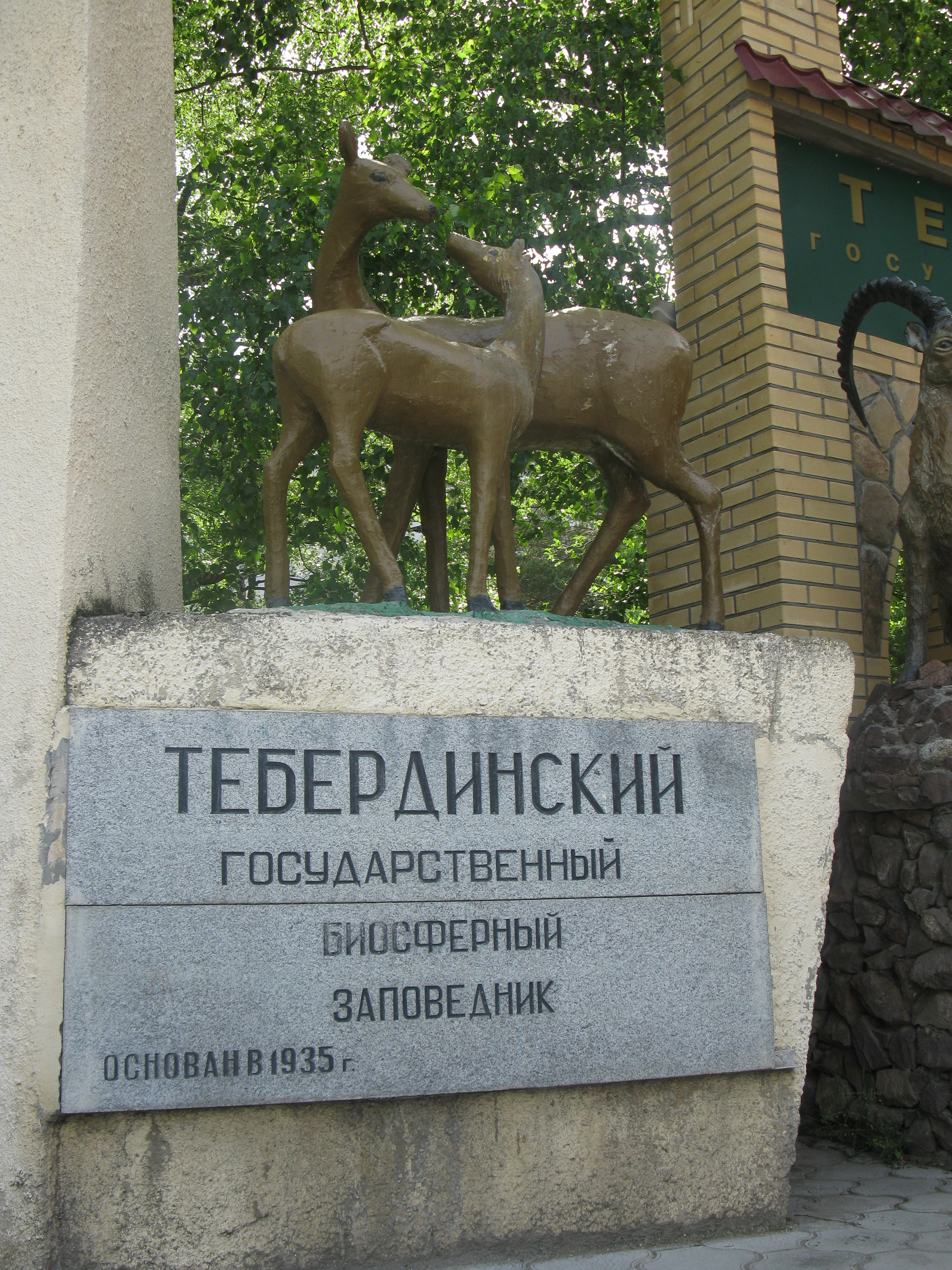 Nature reserves Teberdinskiy in Karachay-Cherkessia